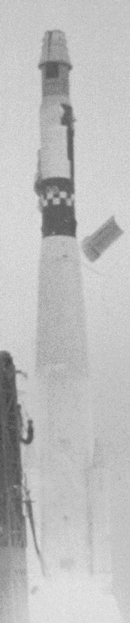 Launch of Thor SLV-2A Agena D rocket with satellite Corona 107 (Corona 1031).